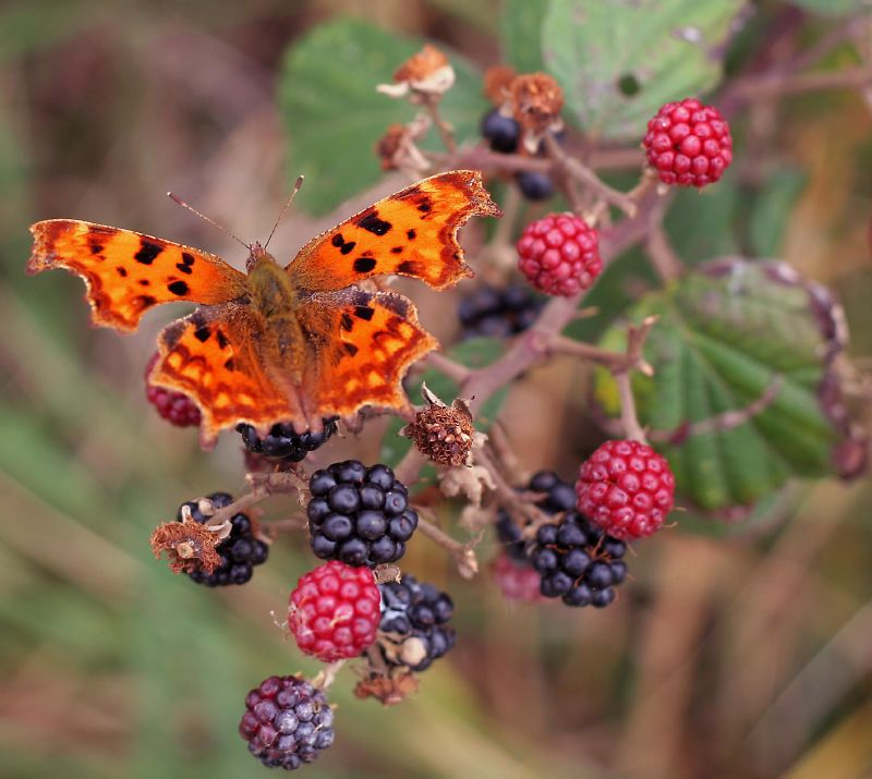 Comma (Polygonia c-album) seen near Hinkley Point, Somerset